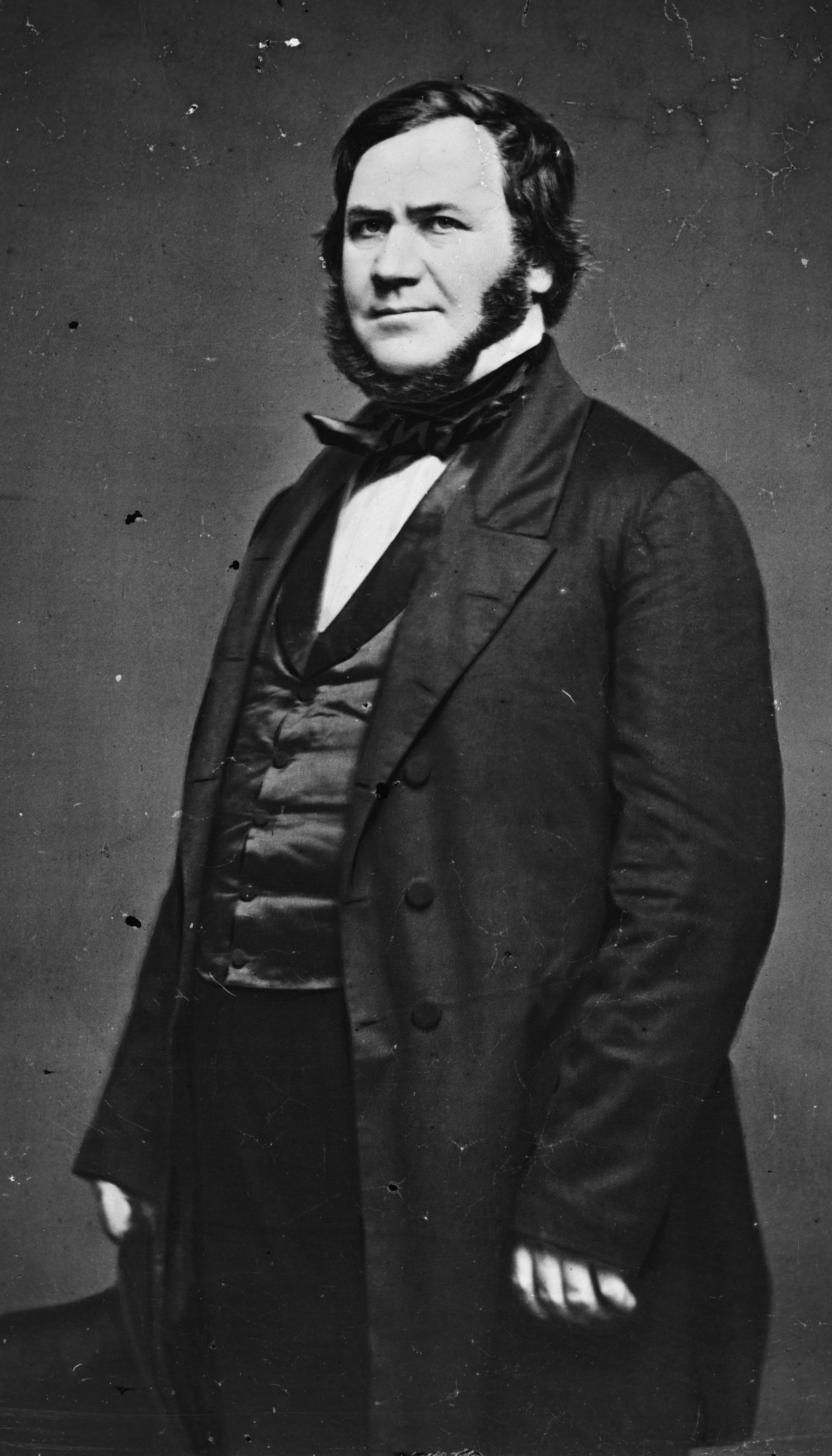 John Adams Gilmer. Library of Congress description: "Hon. J. A. Gilmer of N.C."